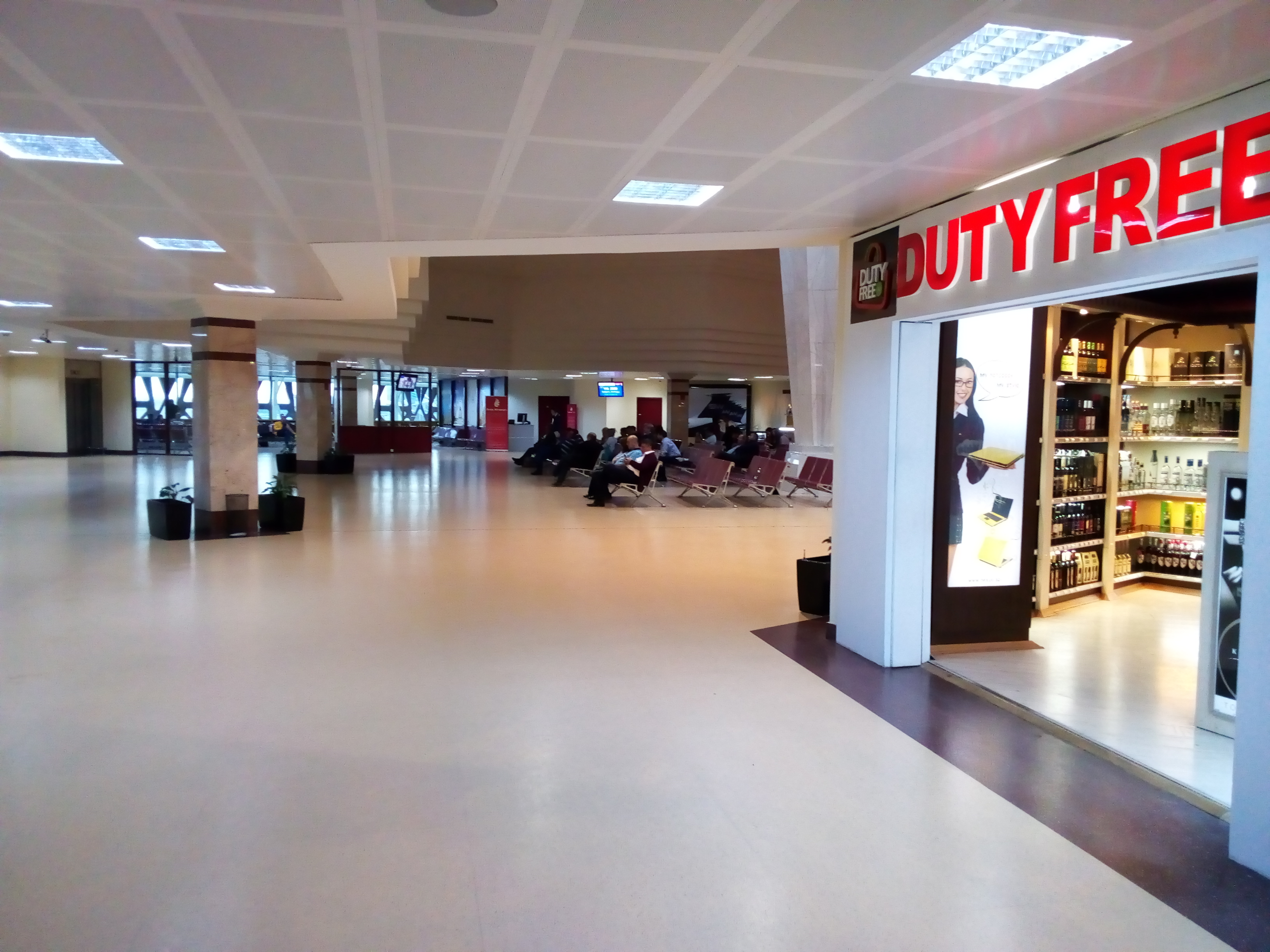 International part airport Geydar Alyev Baku